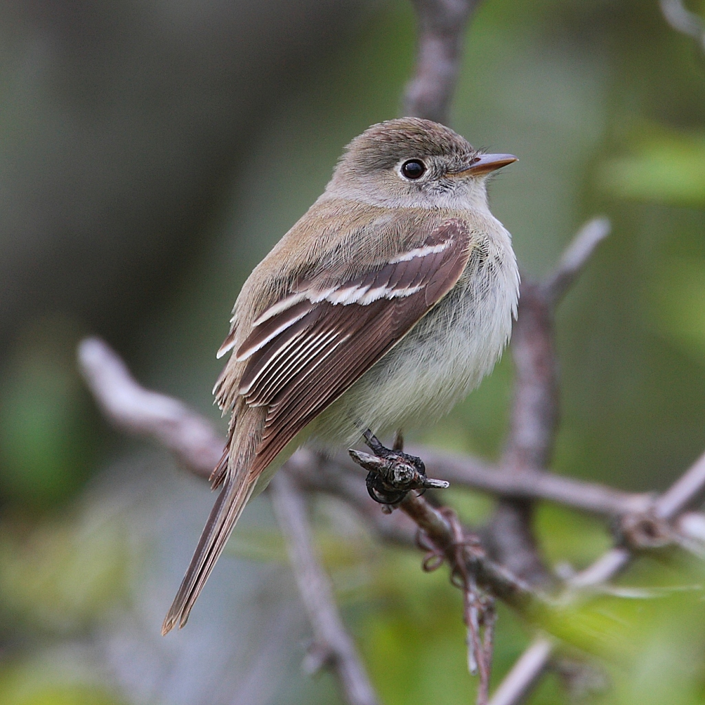 Least Flycatcher Empidonax minimus. Hillman Marsh (near Point Pelee), Canada